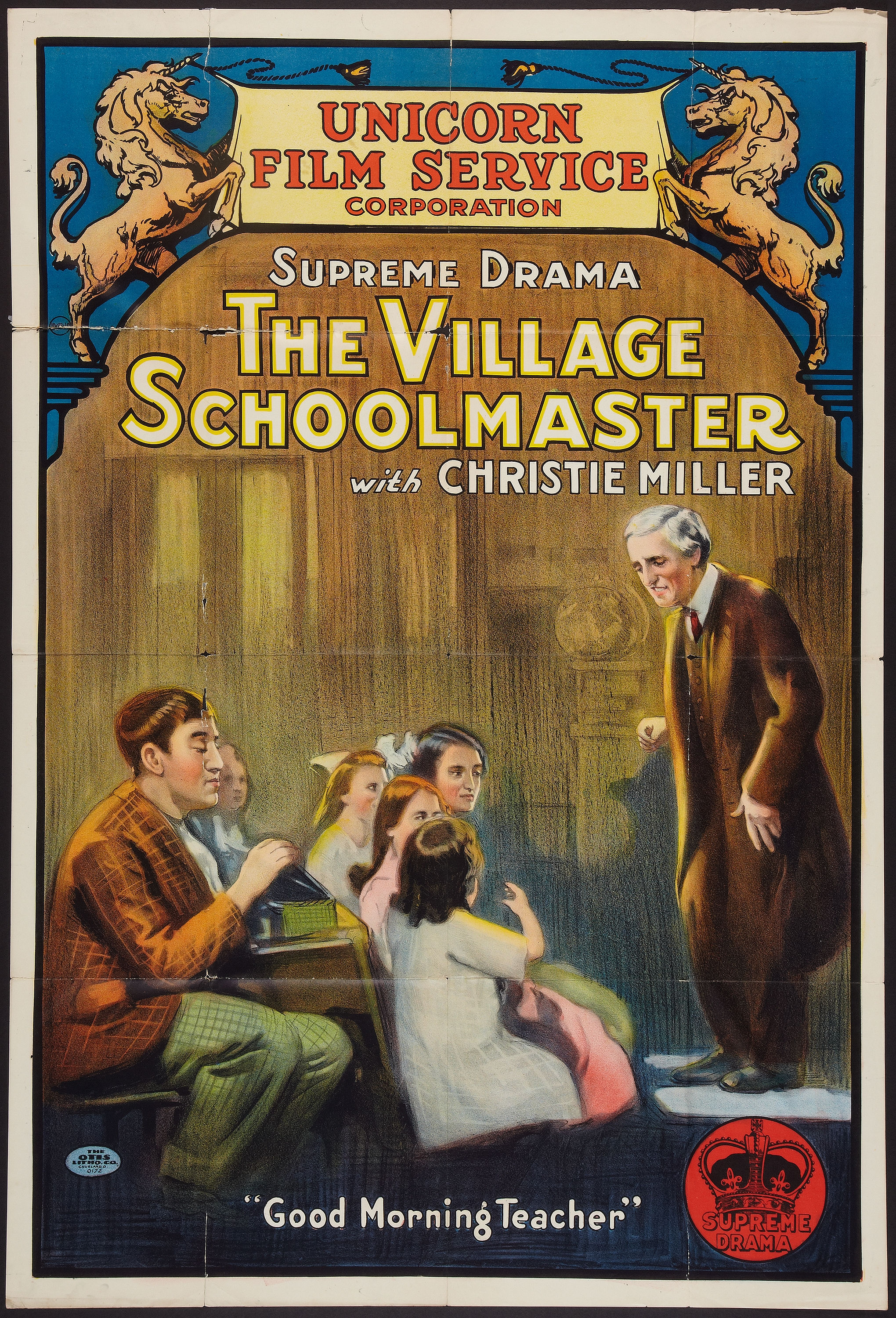 Film poster for The Village Schoolmaster.